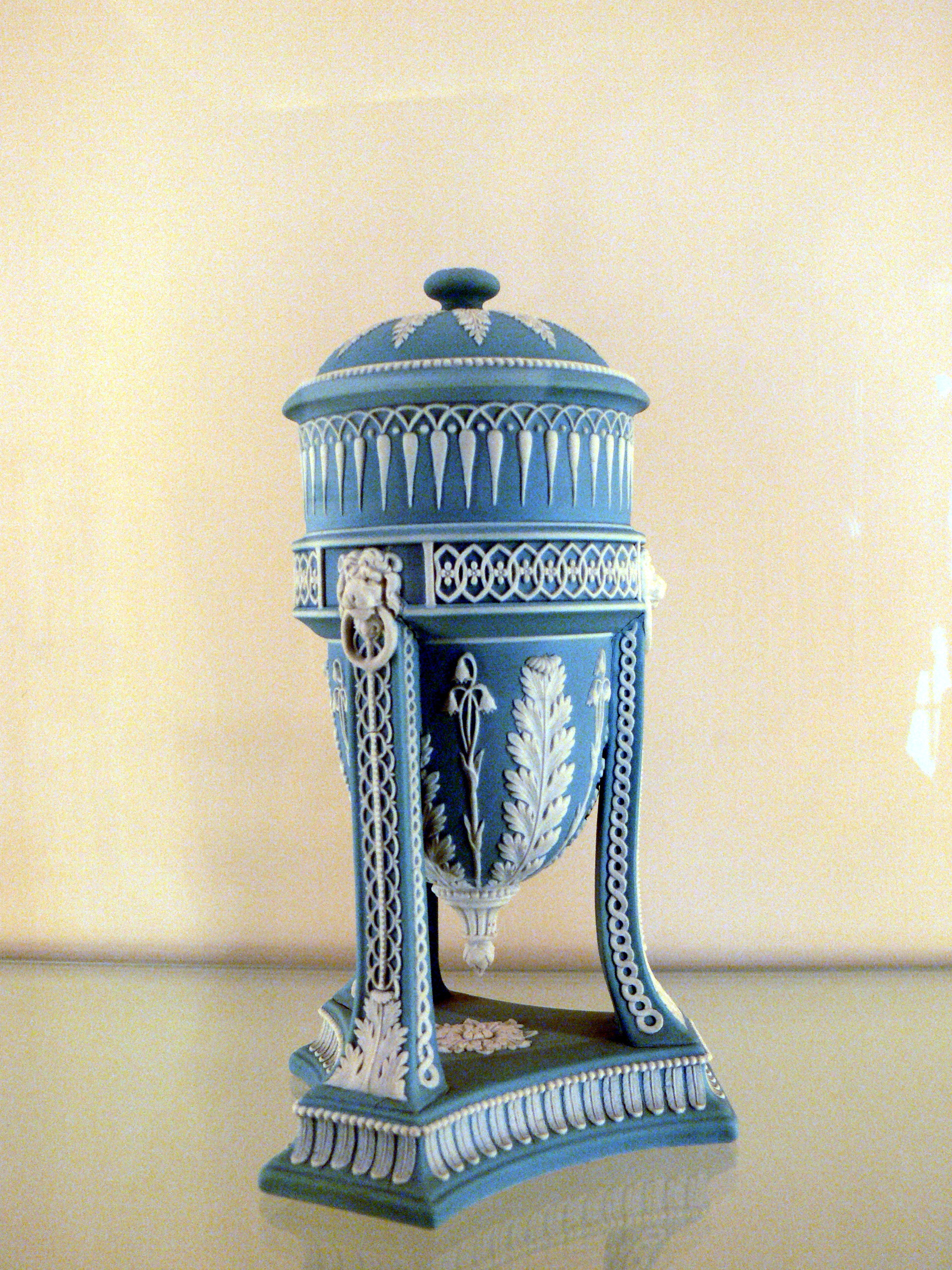 The Philbrook Museum of Art. European Collection: French urn with lid ( 1820 ), Wedgewood porcelain